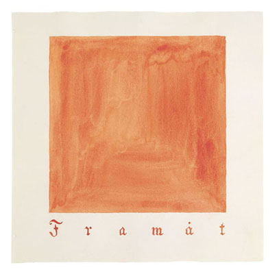 Hilma af Klint: Forwards, Parcifal Series, Group 2, Section 4: The Convolute of the Physical Plane, 1916